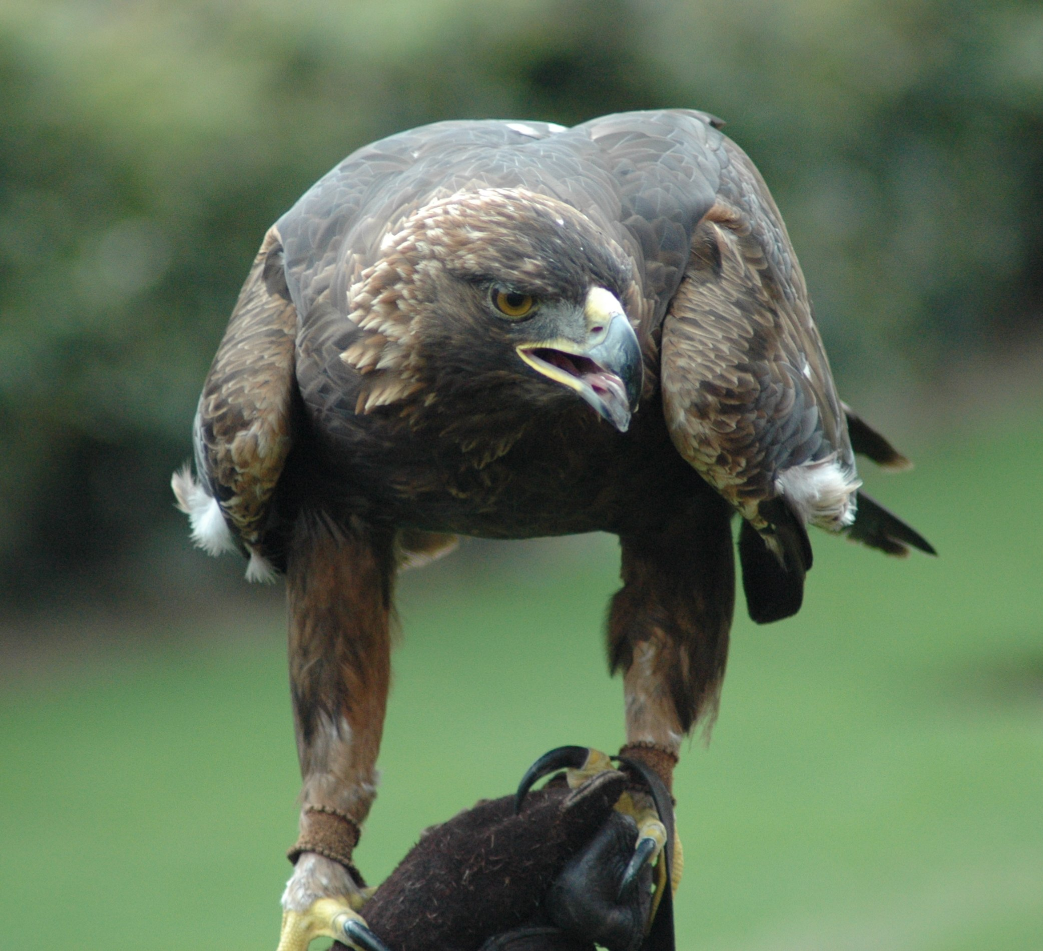 Nova - an American golden eagle in the care of the Southeastern Raptor Center at Auburn University